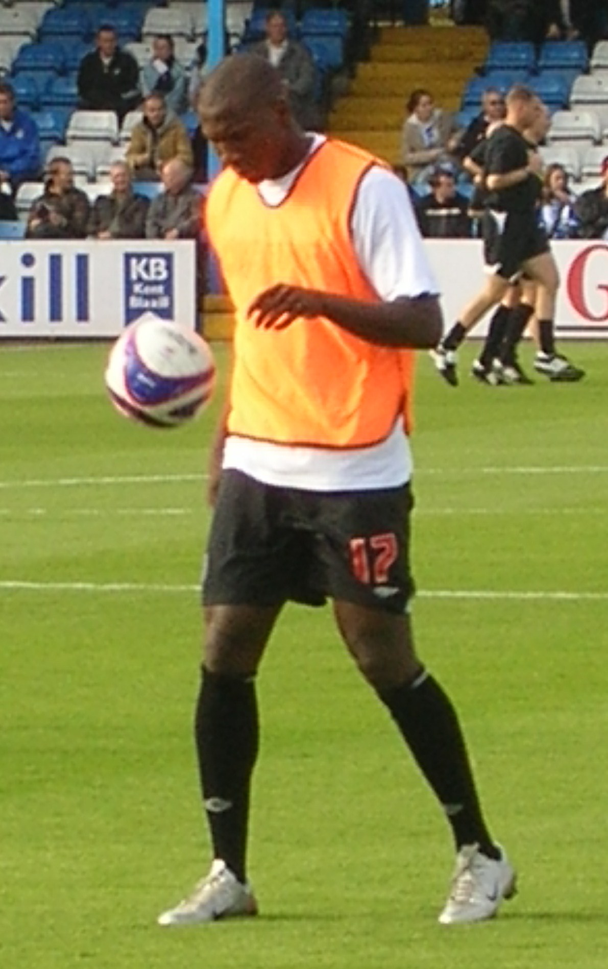 Ishmael Miller of West Bromwich Albion, warming up at Layer Road, Colchester on 2007-10-20